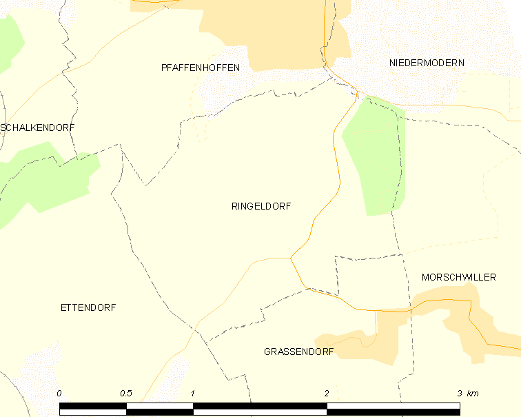 Map of French municipality